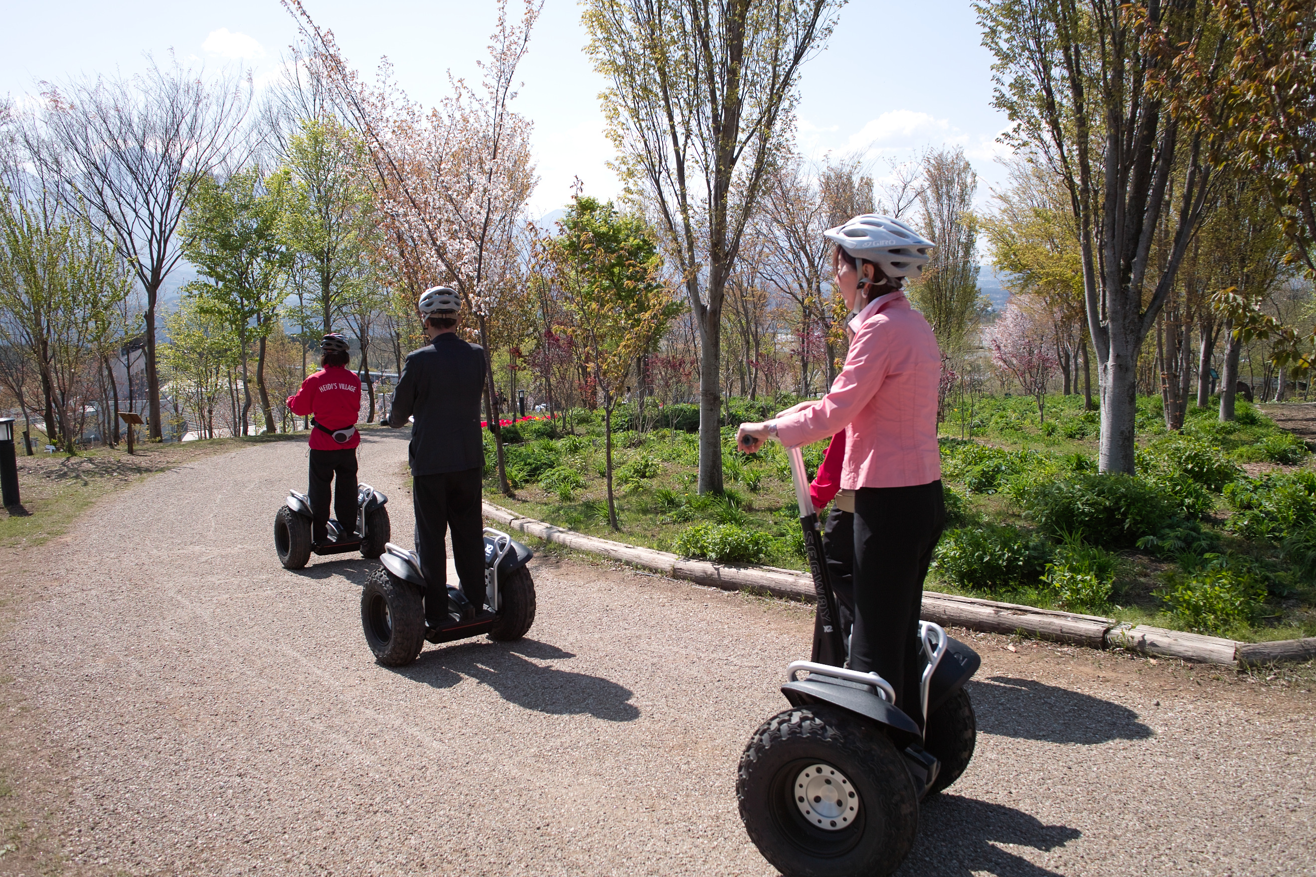 Segway tour in Haiji no mura, Yamanashi, Japan.